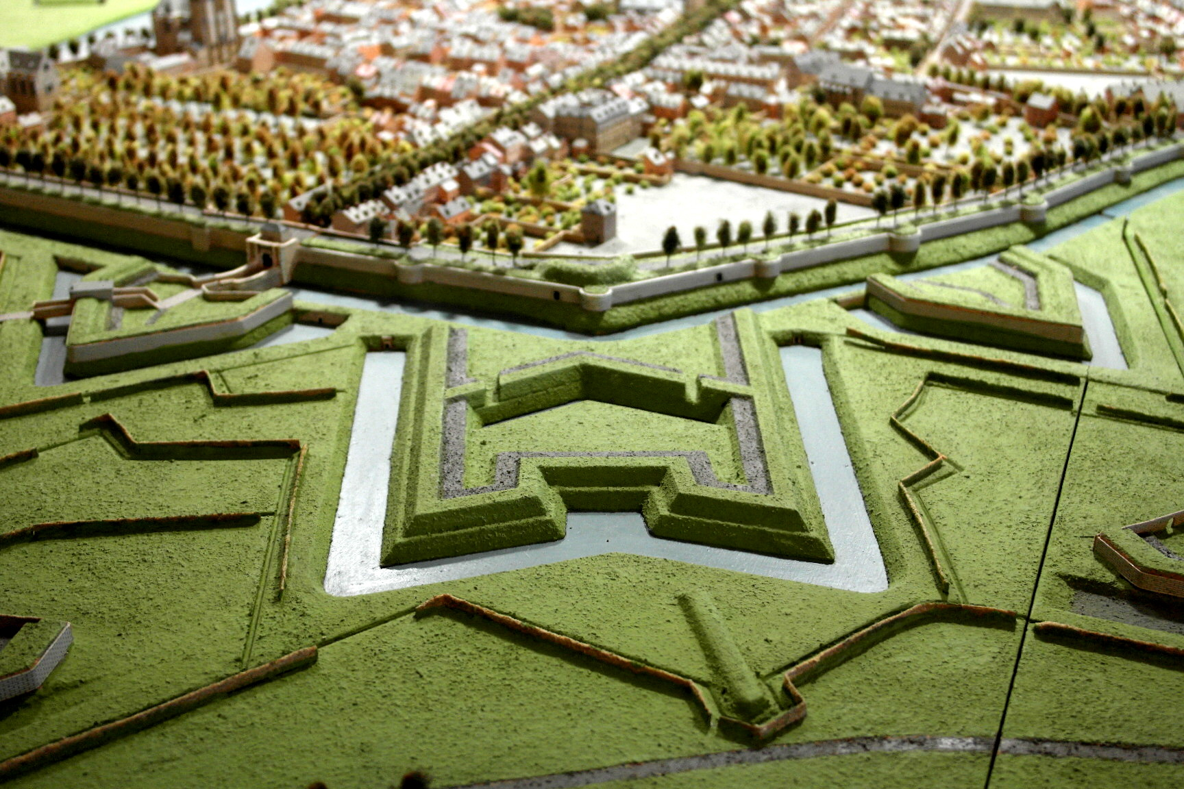 Detail of the copy of the French Maquette of Maastricht on display in Centre Céramique, Maastricht, the Netherlands. The copy was made in 1974-1982, based on the mid-18th-century scale model made for King Louis XV of France. This section shows the northwestern city wall and the so-called Bosch Hornwork (centre) with the Boschpoort bastion (left) and Tettau bastion (right).